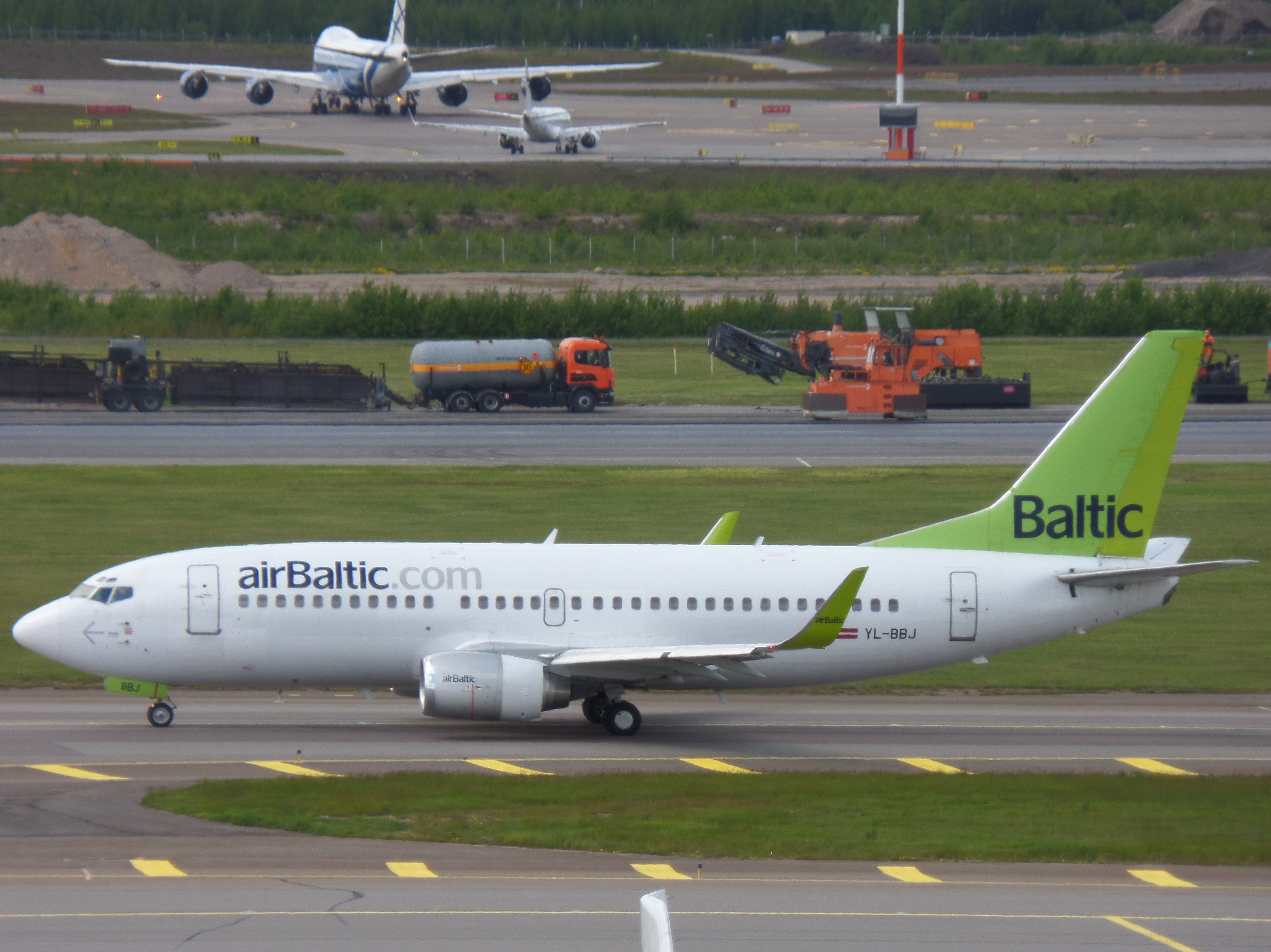 AirBaltic Boeing 737-36Q YL-BBJ at Helsinki-Vantaa Airport on 5 June, 2015.